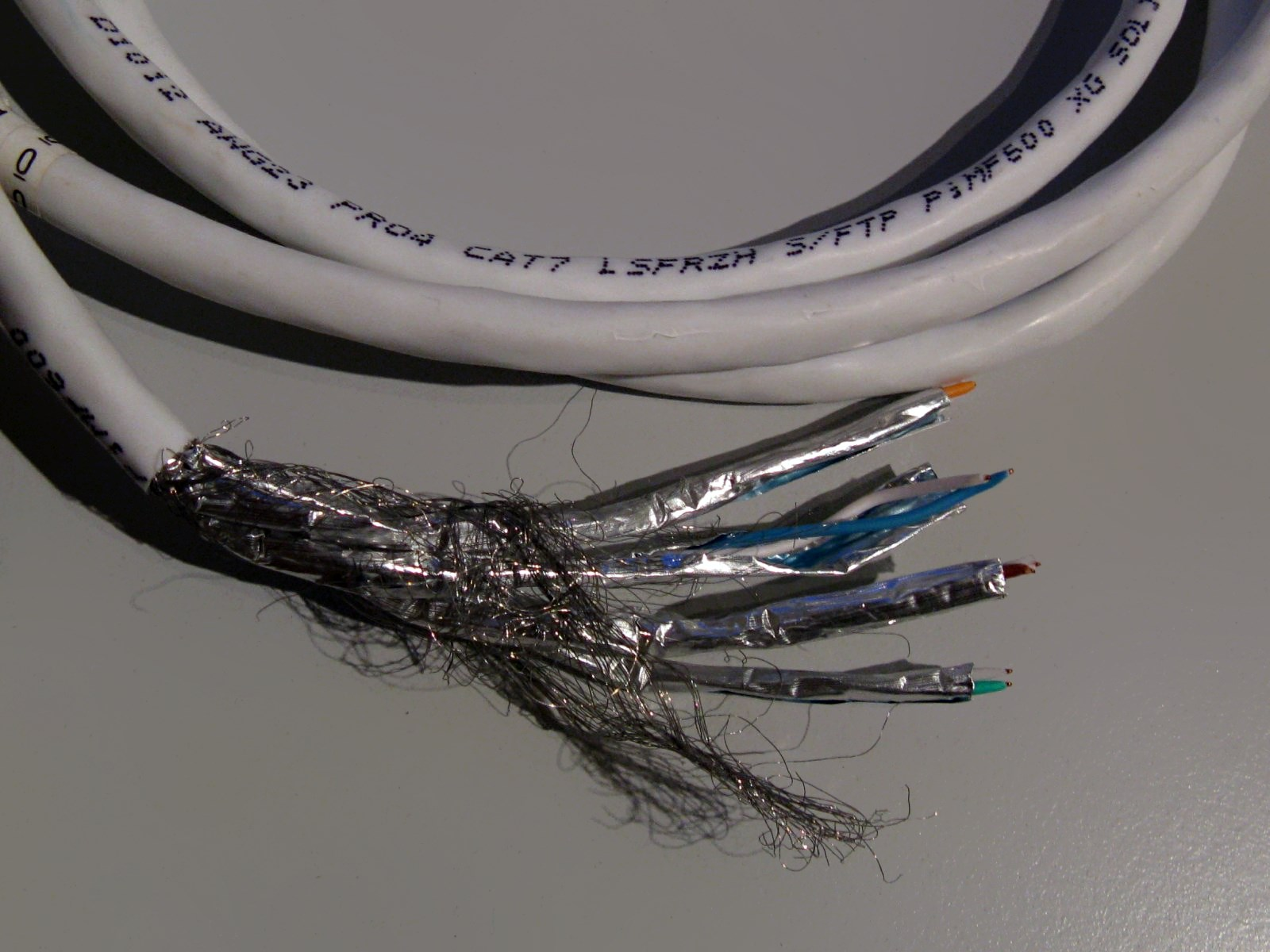 cat7 cable